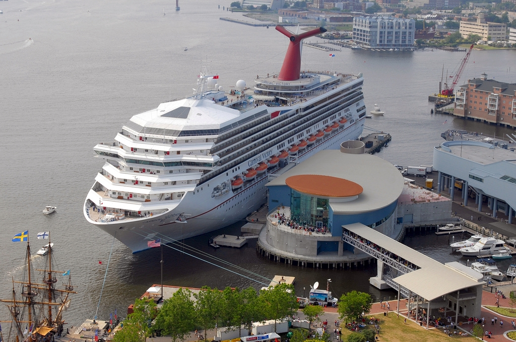 Half Moone Cruise & Celebration Center, Norfolk, Virginia, United States.